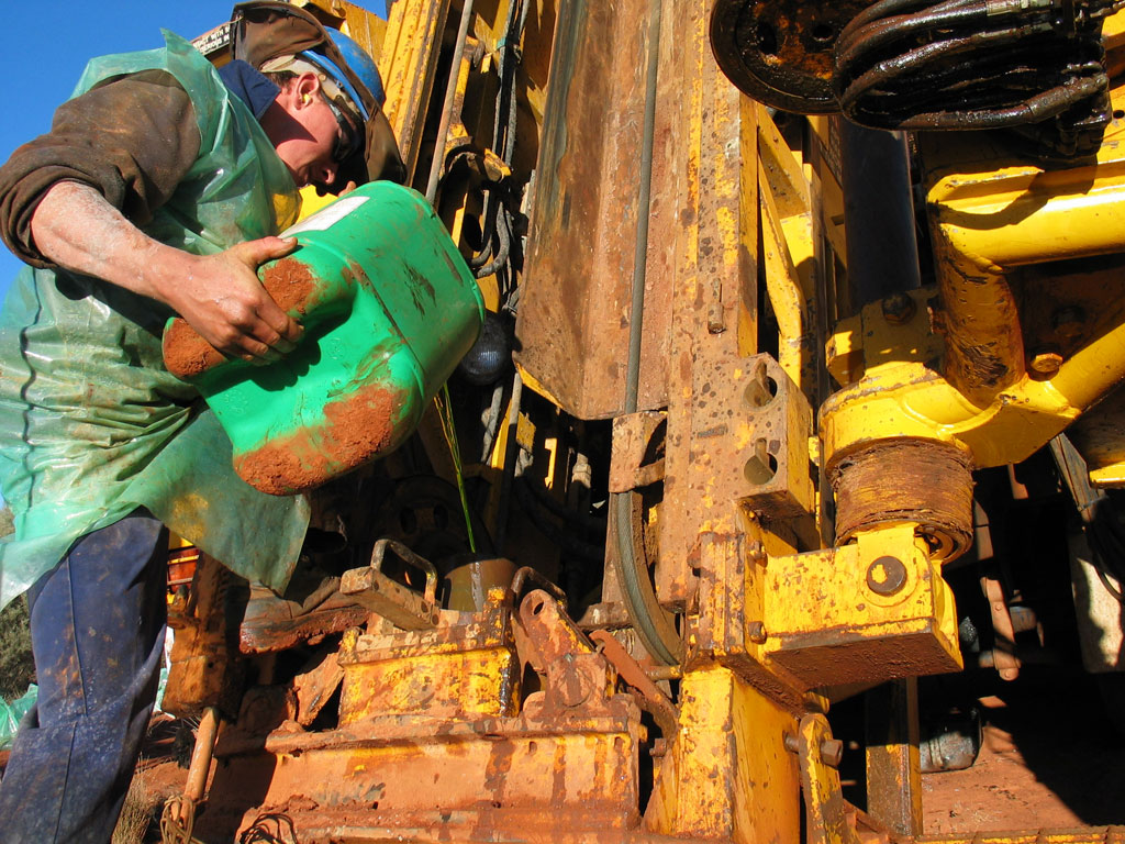 Photo taken by Blastcube) ; The description on the thumbnail state pouring defoaming agent into the "rod string". The proper terminology is drill string. You can also say pouring into the box end of the drill string.